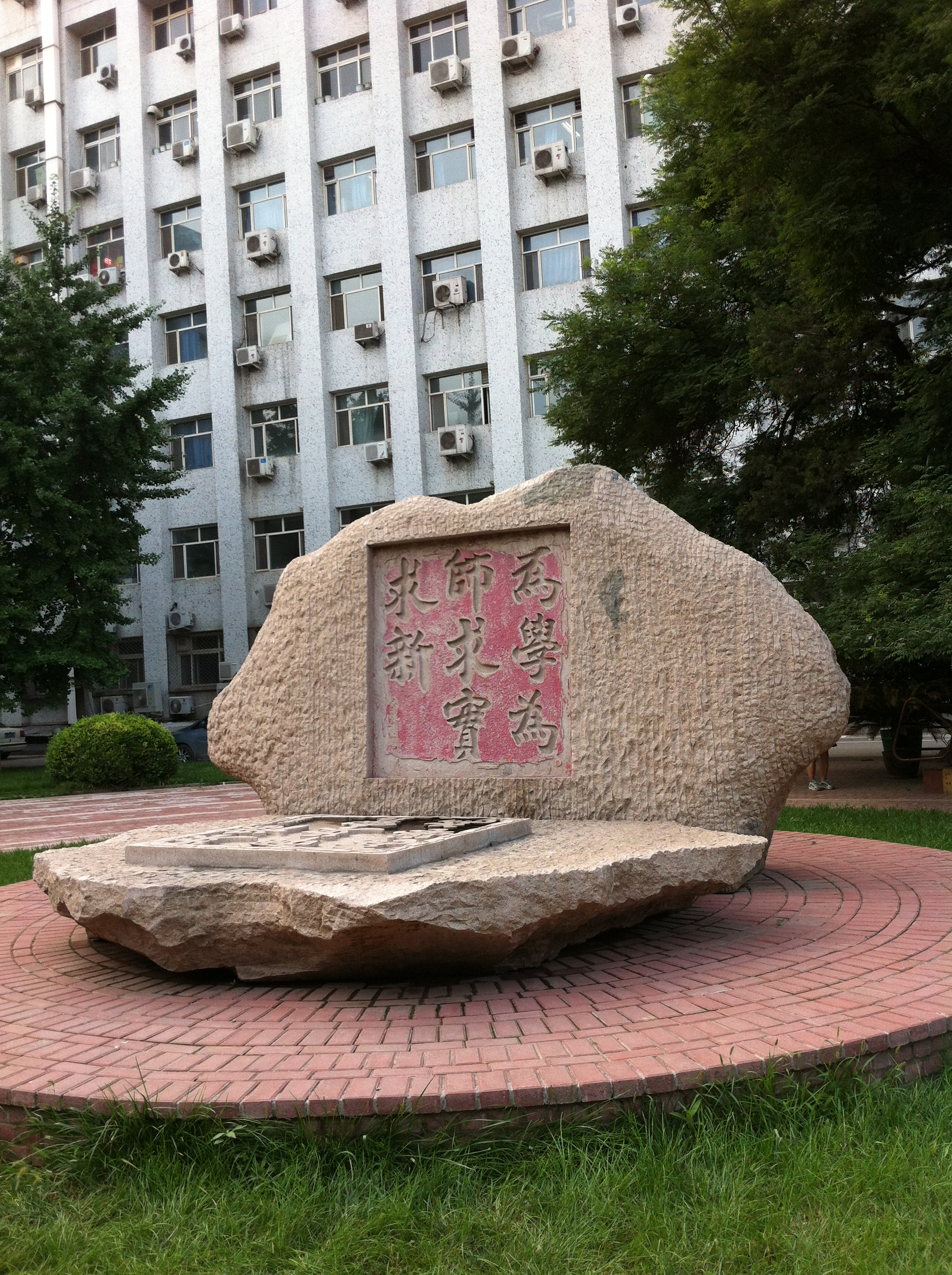 The motto of Capital Normal University, as depicted on the stone